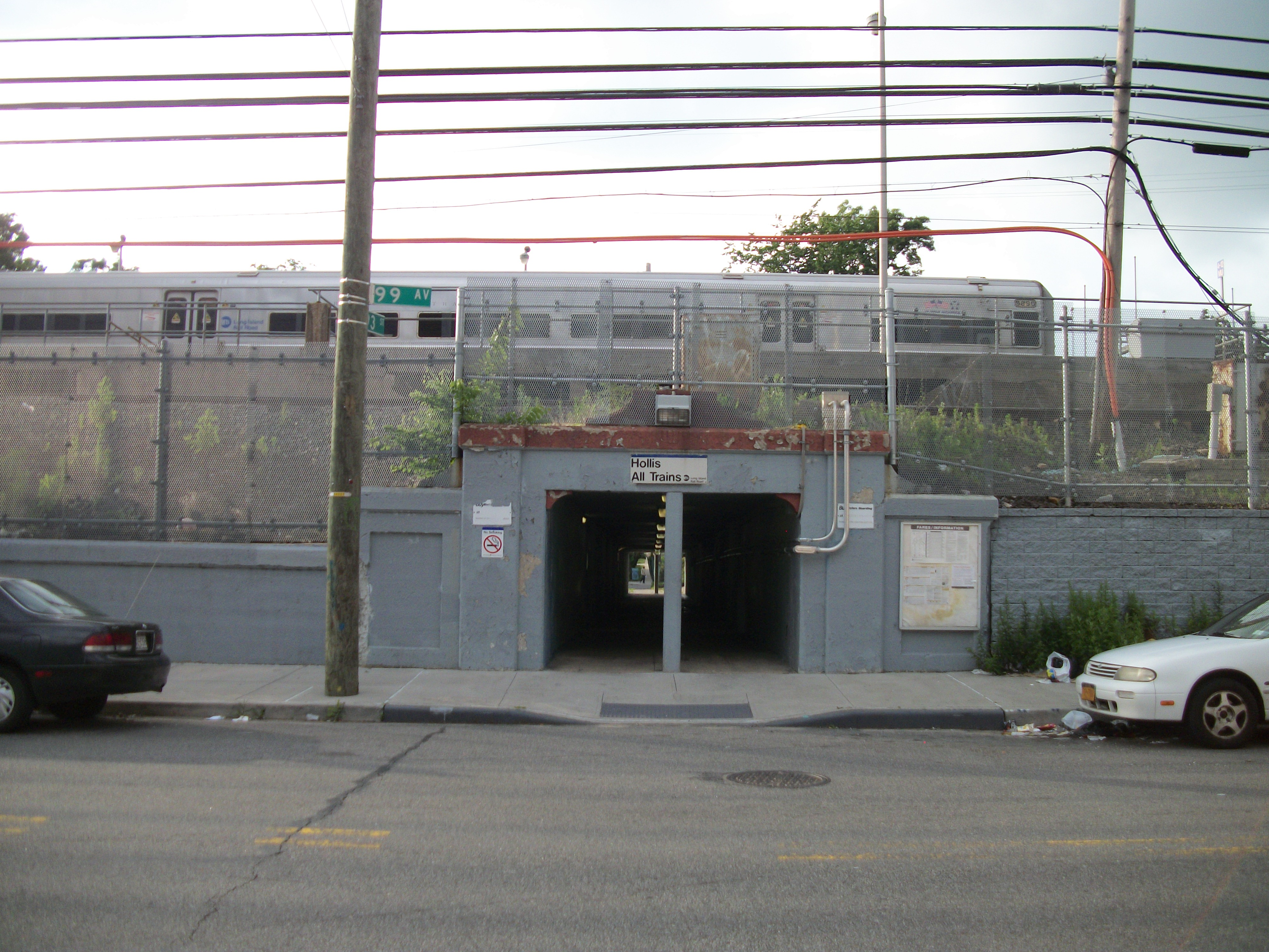 A Hempstead-bound LIRR train (now confirmed as an M3) briefly arrives and leaves Hollis Station in the Hollis section of Queens, New York City just east of Jamaica. Seen from the intersection of 193rd Street south of the intersection of 99th Avenue and the tunnel entrance between the tracks.